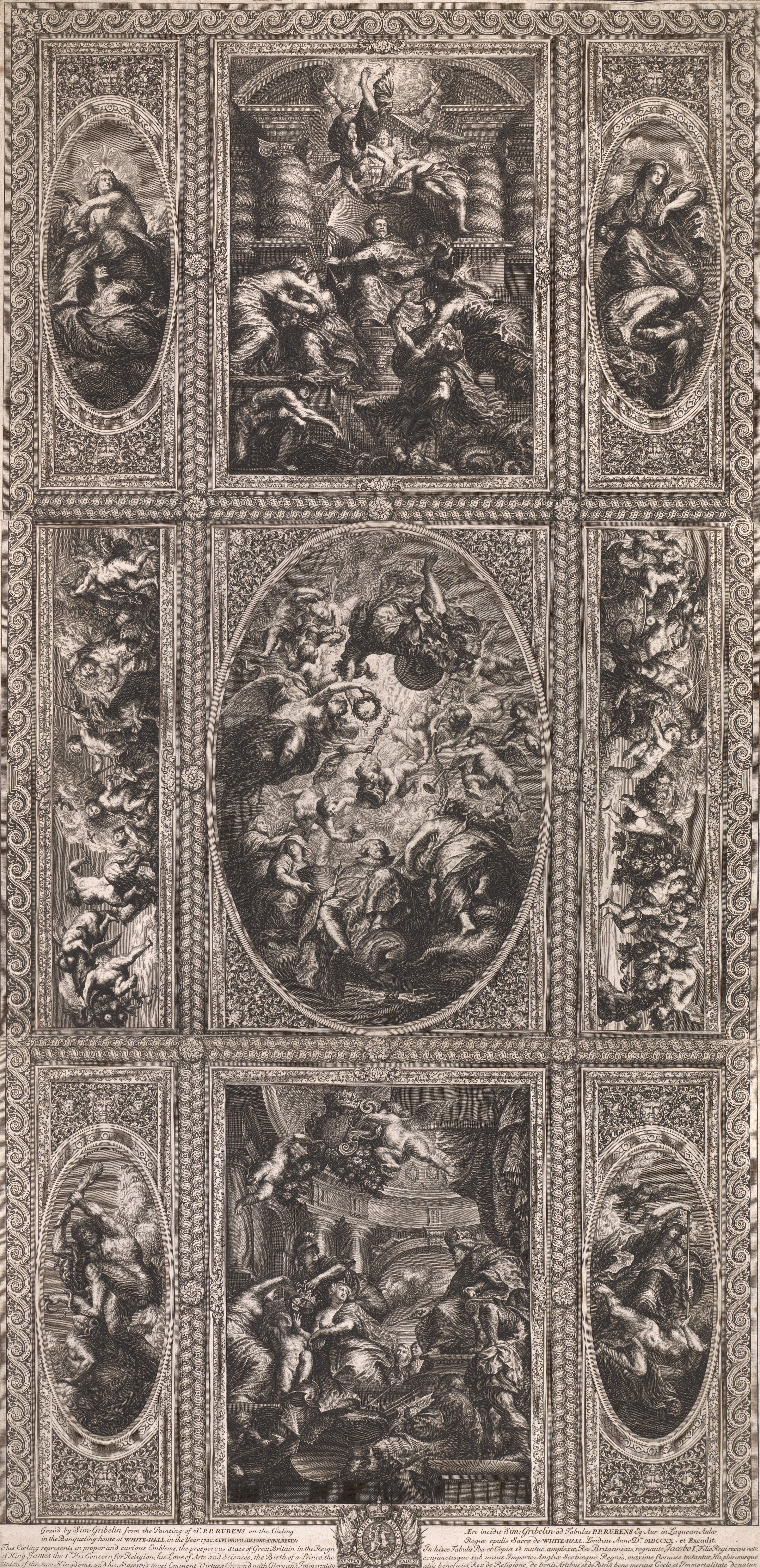 Architectural subject